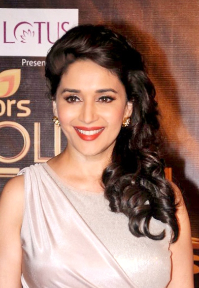 Madhuri Dixit at the Colors Golden Petal Awards 2012